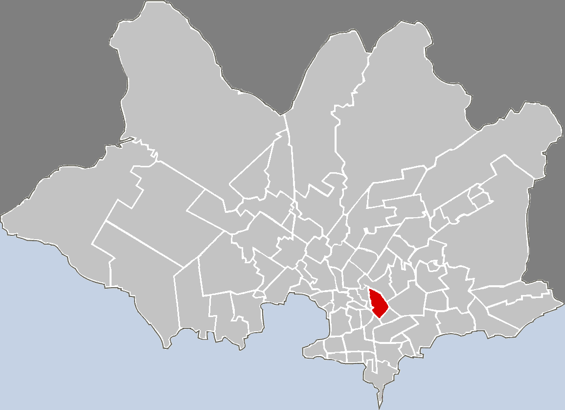 Map highlighting the given barrio in Montevideo.